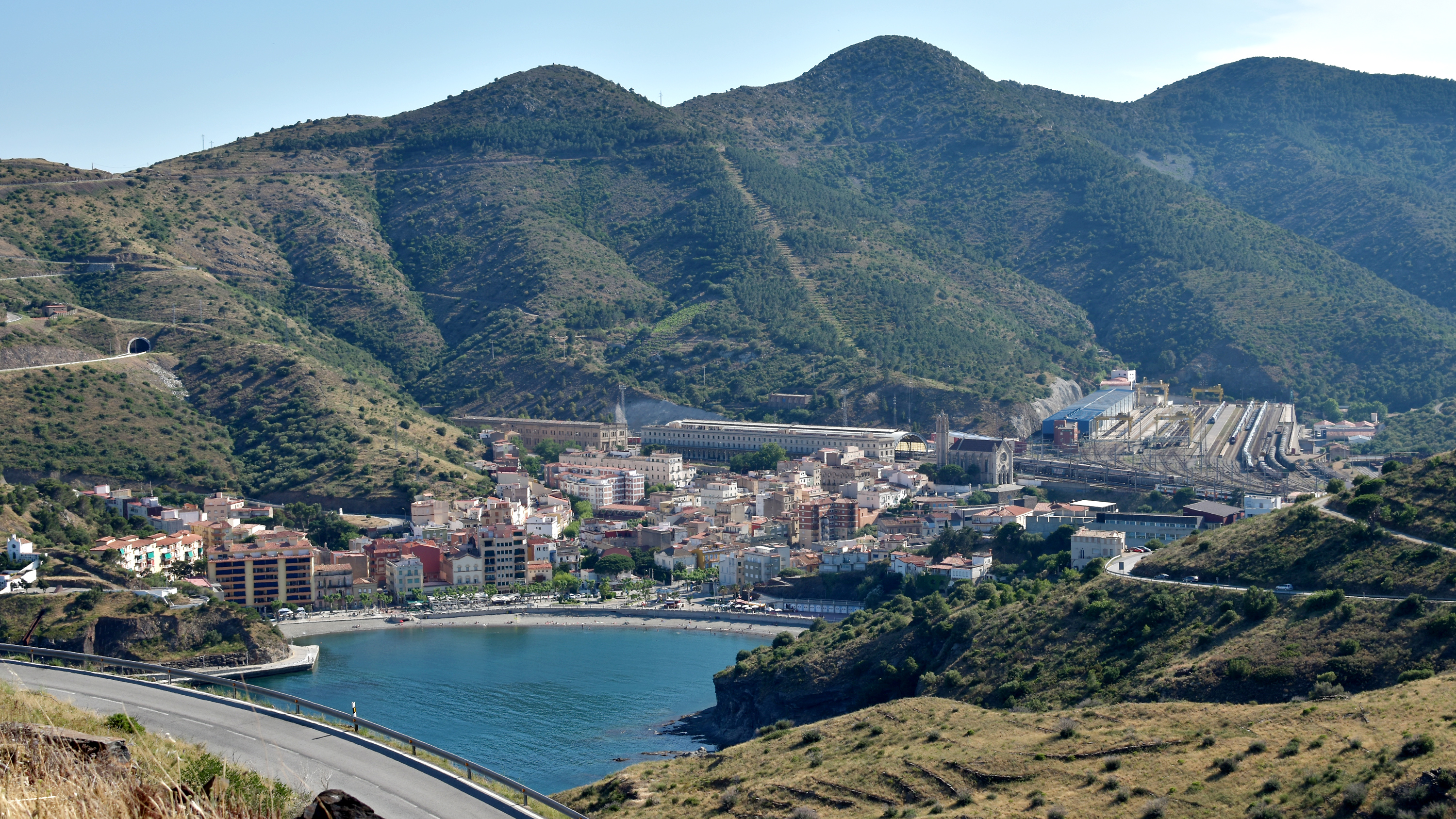 Portbou (Catalonia, Spain).